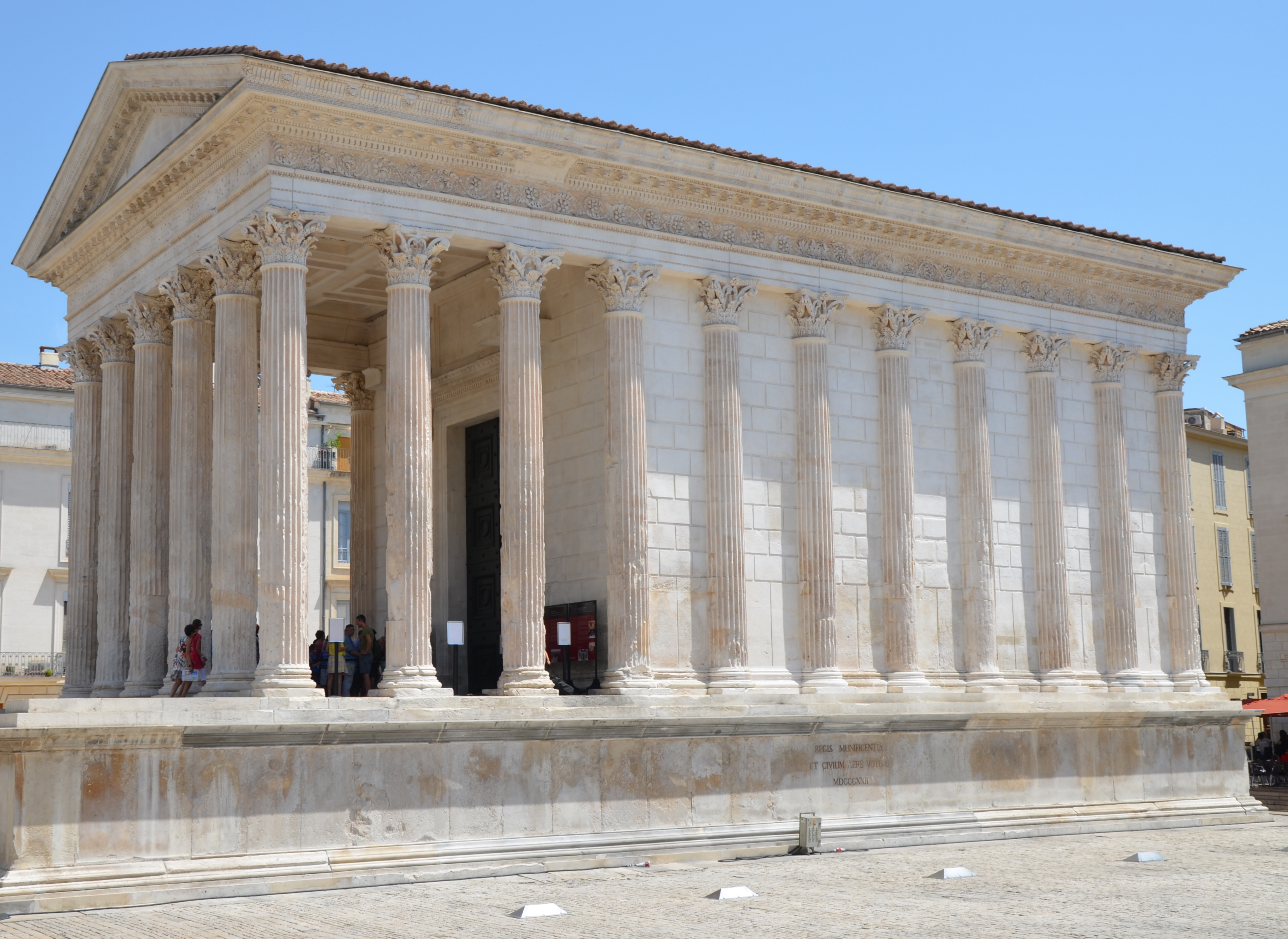 The Maison Carrée, 1st century BCE Corinthian temple commissioned by Marcus Agrippa, Nemausus (Nîmes, France)